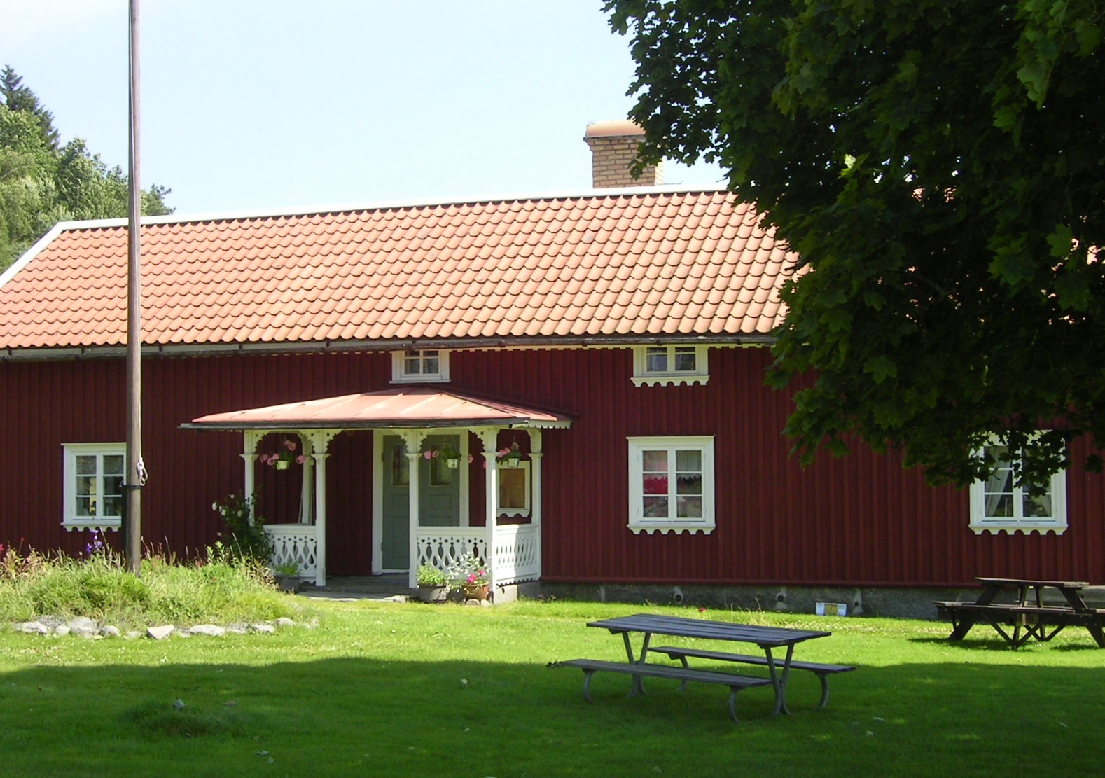 Härryda community centre, Västra Götaland County, Sweden